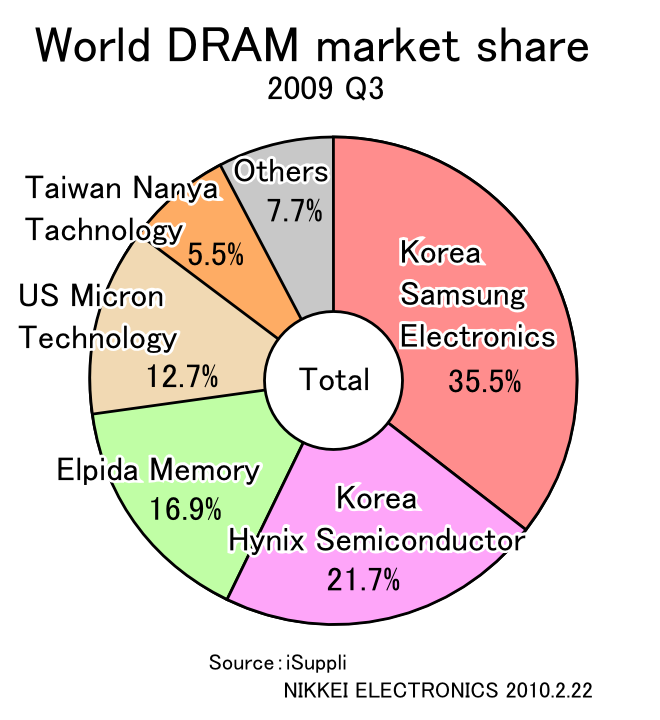 World DRAM market share by salesout 2009/Q3